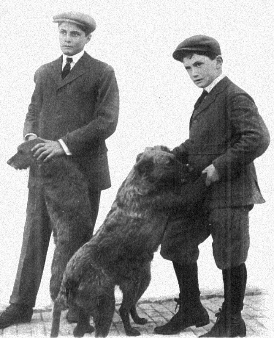 John Edward Madden, Jr. (left) and Joseph McKee Madden (right), sons of turfman John E. Madden circa 1911.c.